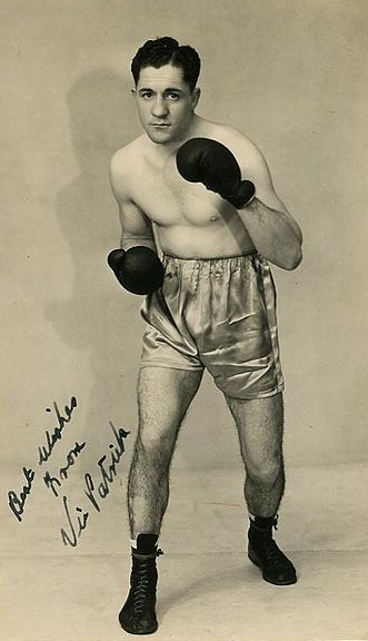 Portrait of boxer Vic Patrick, ex-light & welterweight champion of Australia